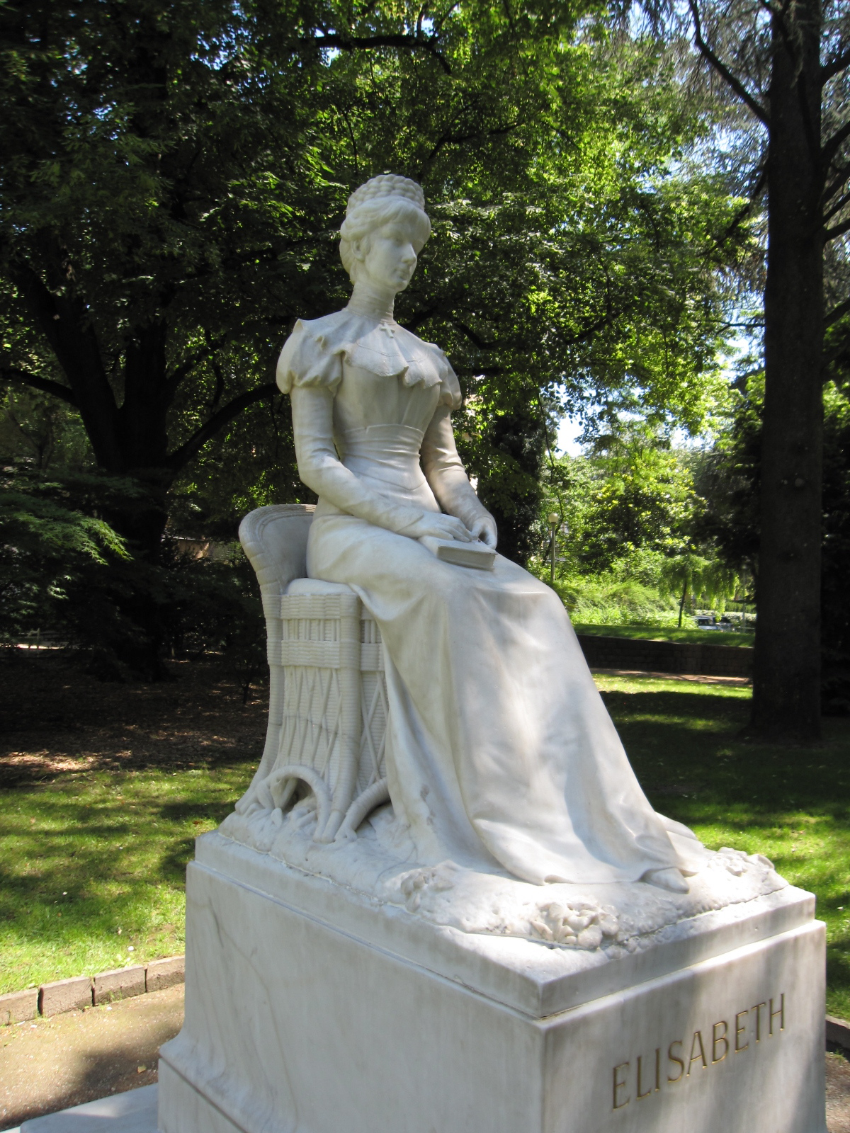 Empress Elisabeth monument in Meran, South Tyrol.